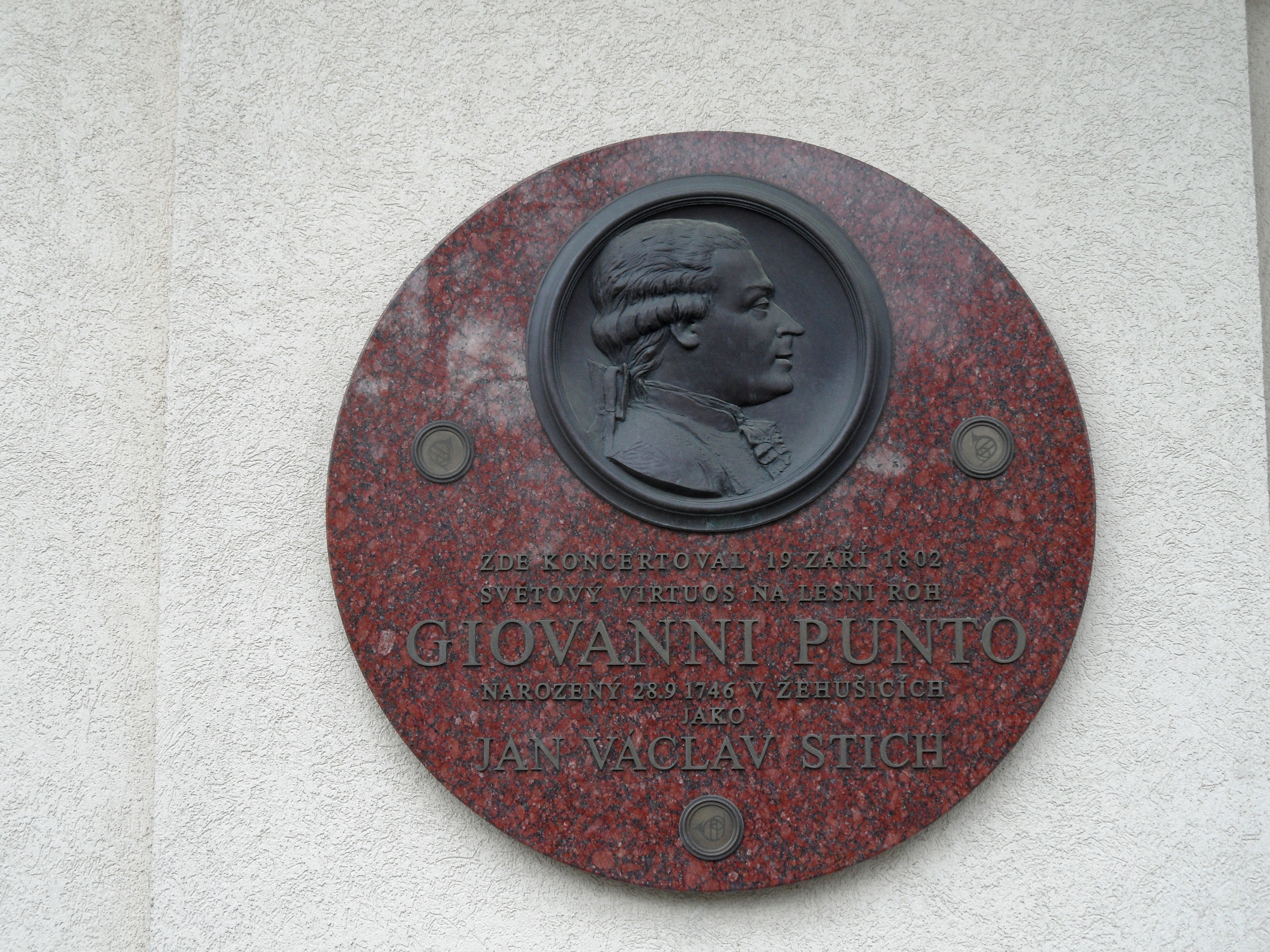 Čáslav, musician and composer Jan Václav Stich (aka Giovanni Punto): Memorial Plaque (nám. Jana Žižky z Trocnova 82/17). Kutná Hora District, the Czech Republic.